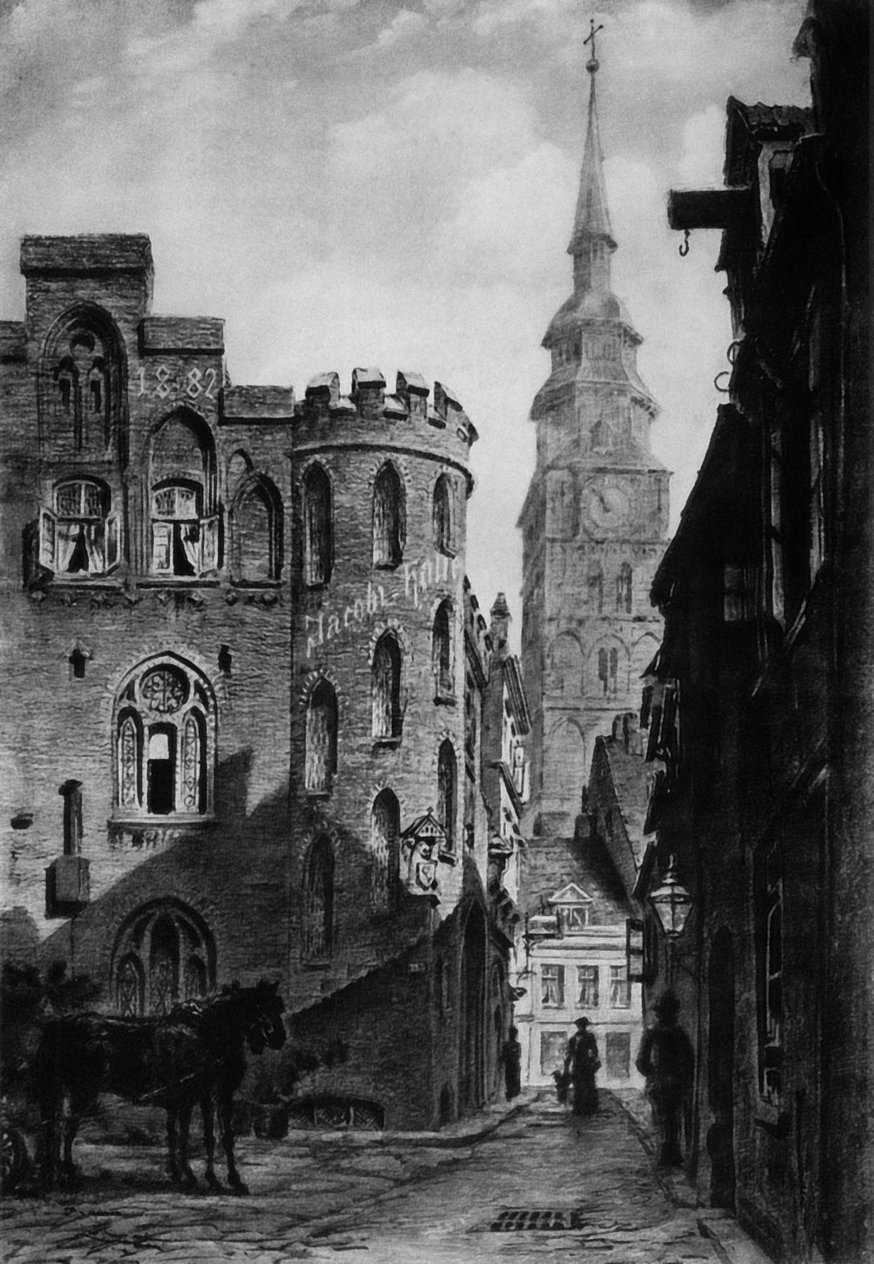 Photogravure from the year 1890 of a drawing by Bernhard Wiegandt, showing the Jacobihalle (an inn built in the choir of the former Jacobi church) and in the background the church tower of St. Ansgarii in Bremen.